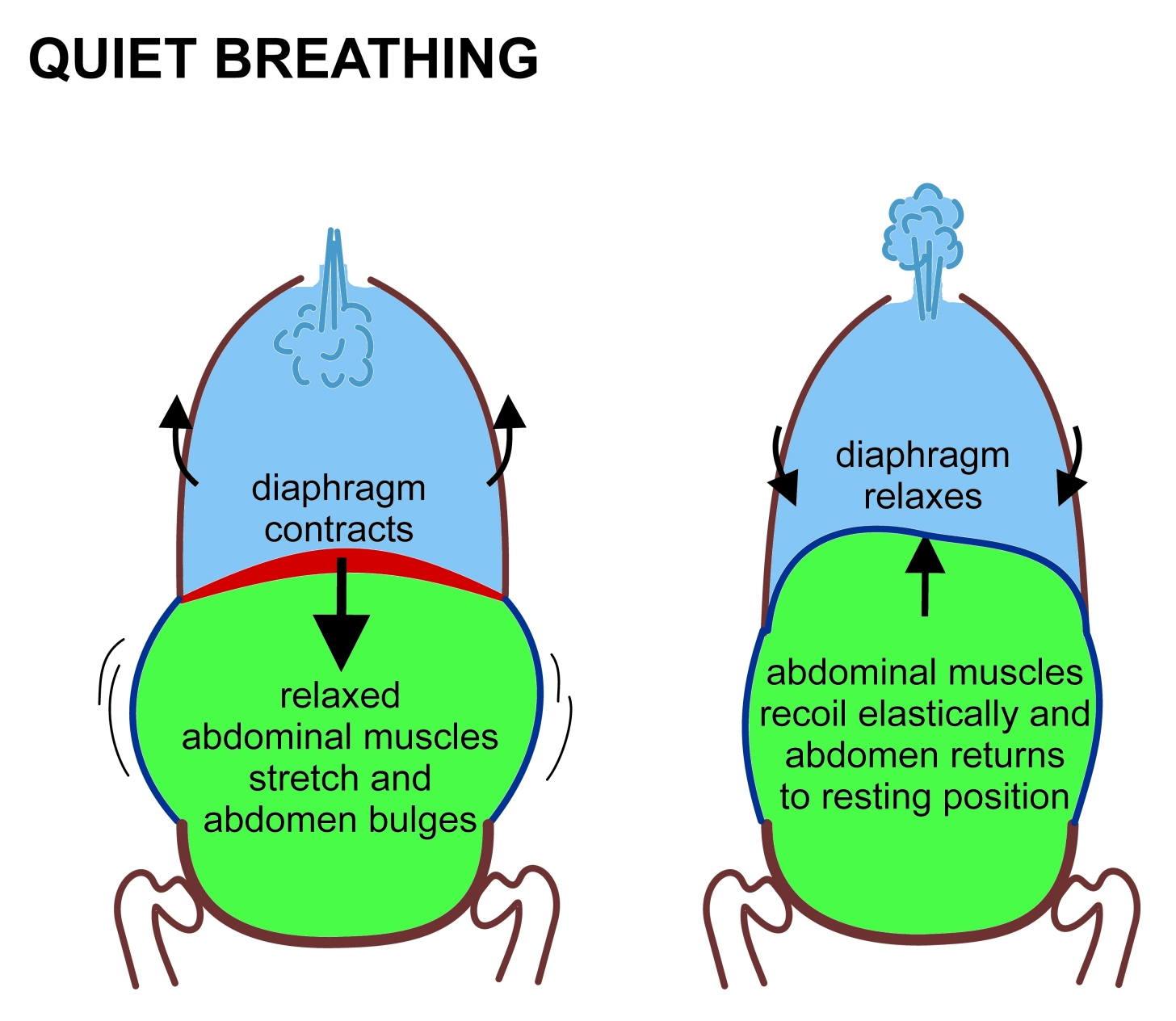 The muscles used during quiet breathing. Inhalation on the left, exhalation on right. Contracting muscles are shown in red. Relaxing muscles are in blue